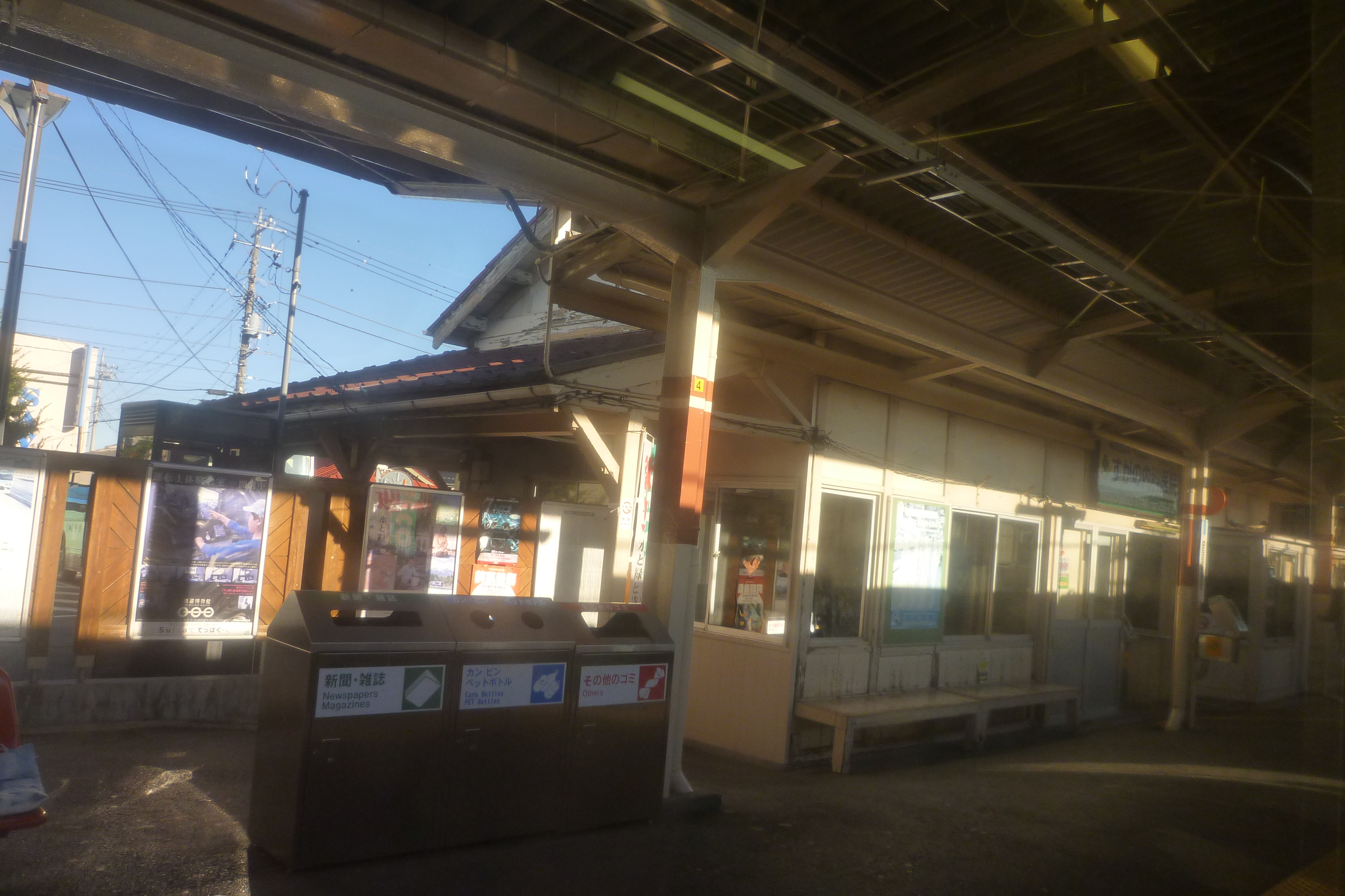 Gumma-Sōja Station in Maebashi, Gunma Prefecture, Japan